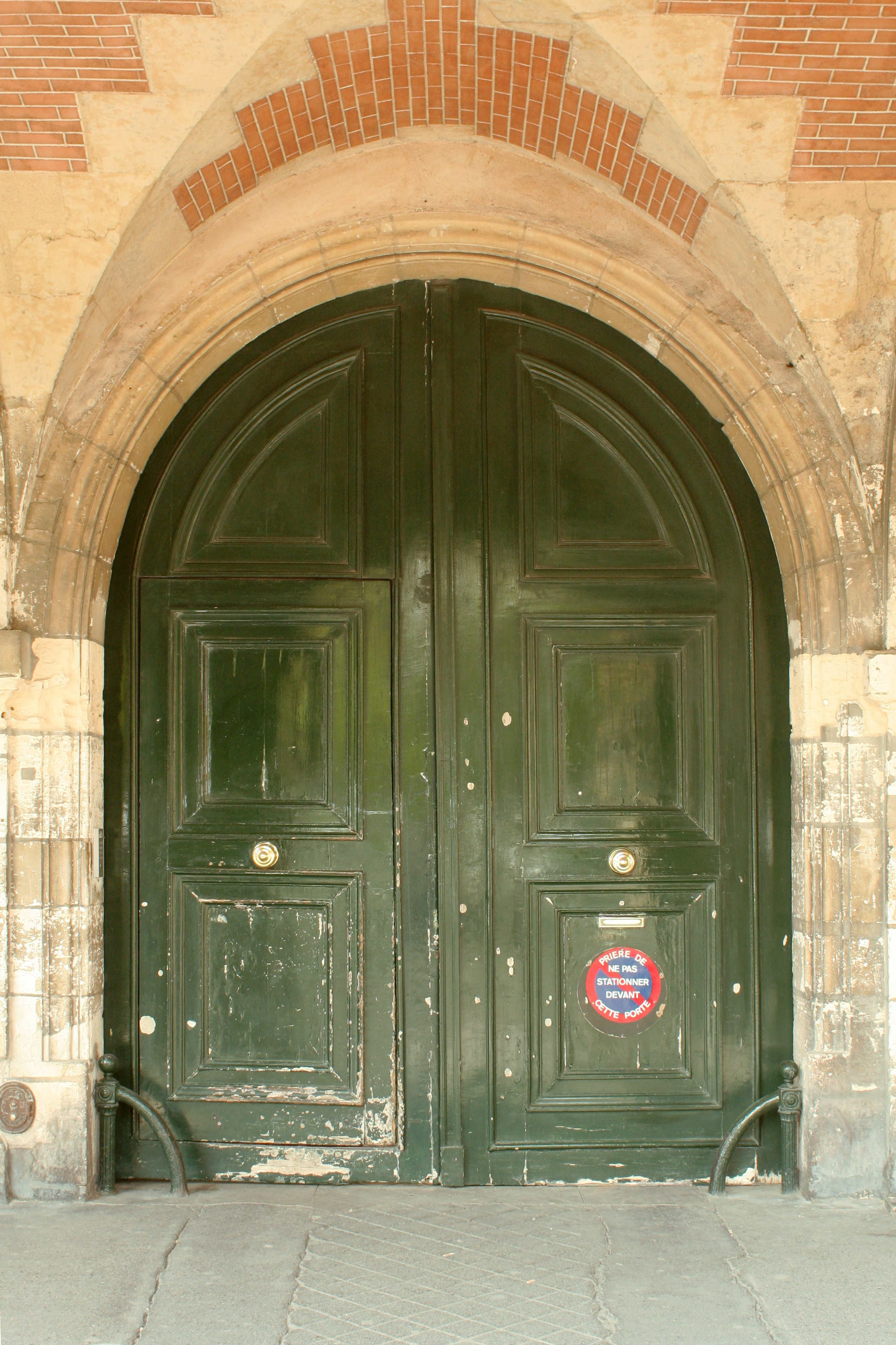 Door of 26 Place des Vosges, Paris.